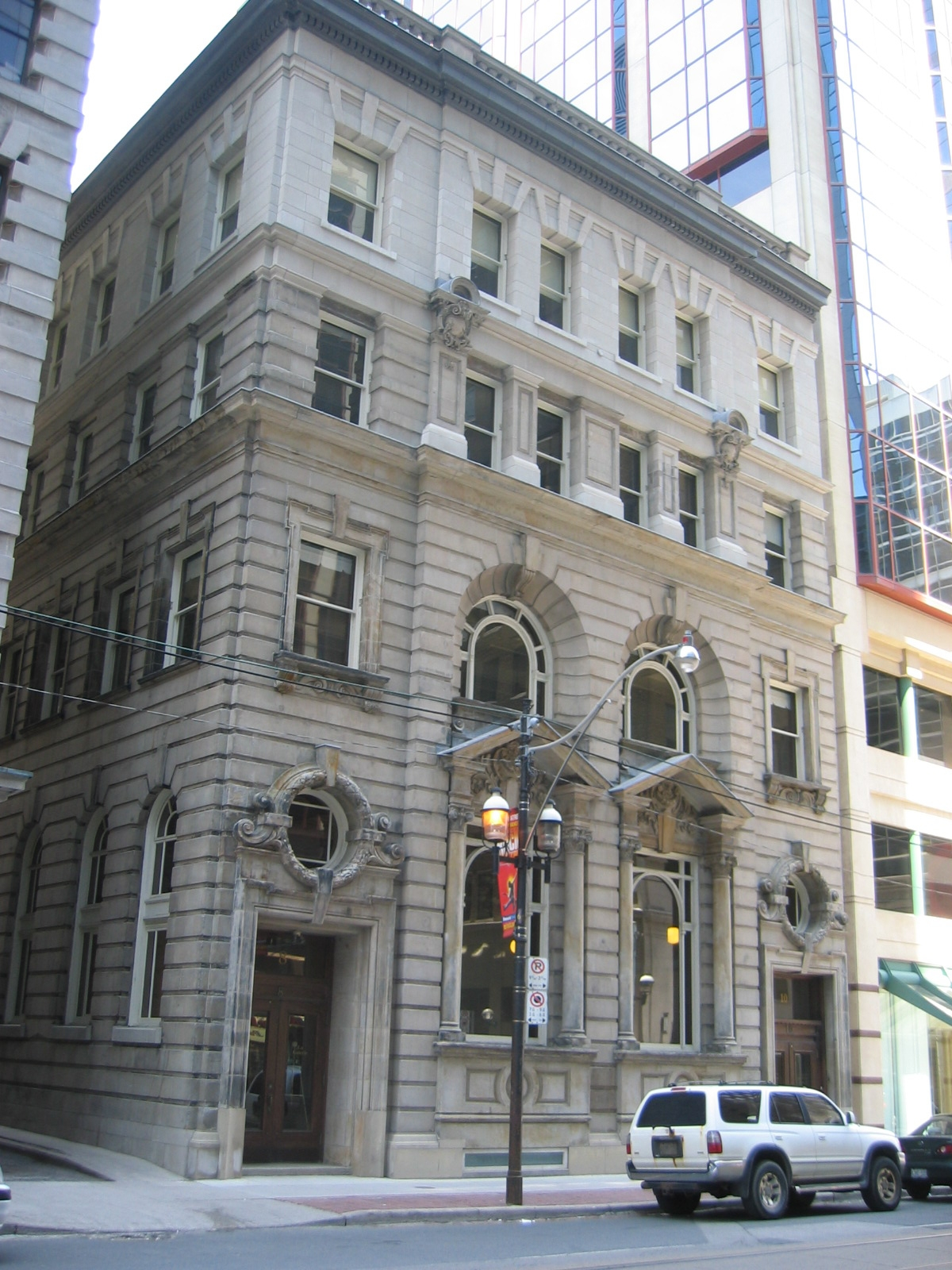 10 Adelaide Street East, Toronto, Canada. Occupied by the Ontario Heritage Trust. Known as the Ontario Heritage Centre or the Birkbeck Building. Completed in 1908, the building has also served as premises for the Canadian Birkbeck Investment and Savings Company and the Royal Canadian Academy.